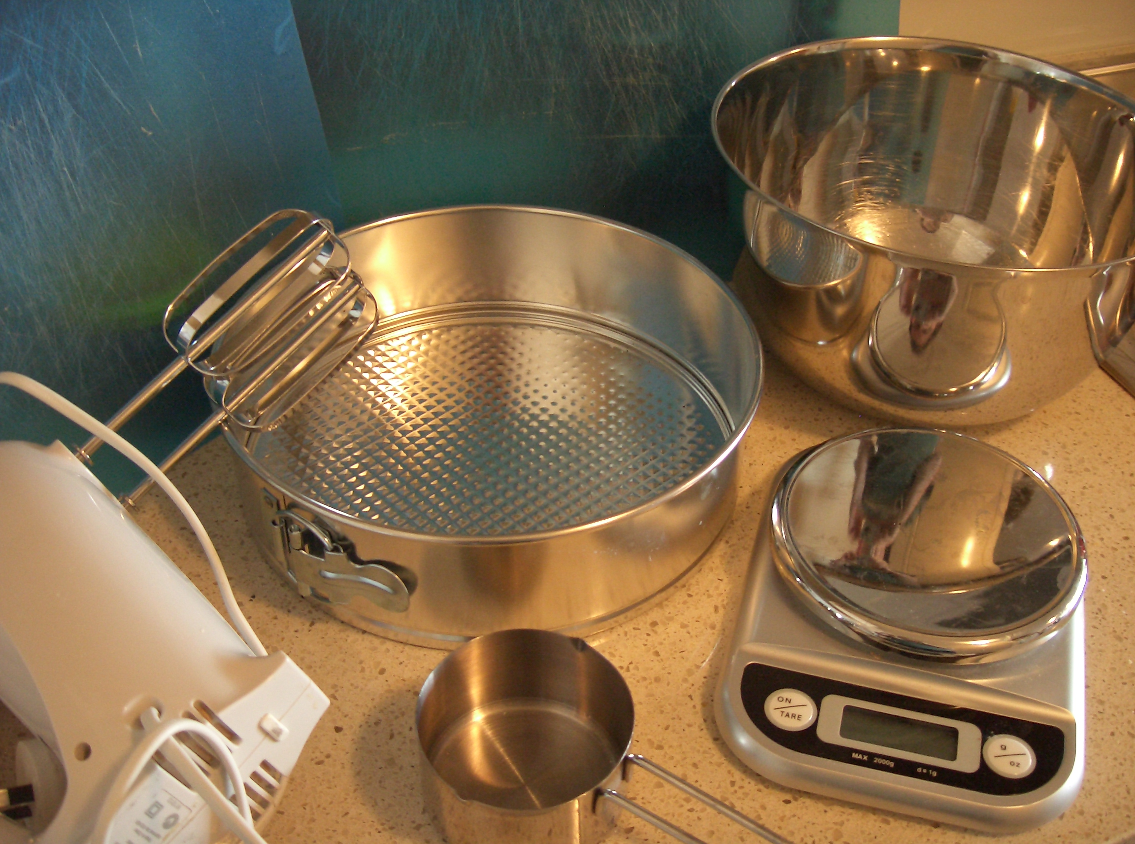 Cooking utensils and implements needed to make Cookbook:1-2-3-4 Cake. From left: Electric beaters, a springform (?) cake tin, a measuring cup (1 C), electric scales and a large mixing bowl. Actually it turns out you don't really need the scales. :)